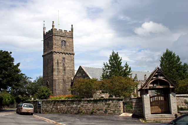 Madron Church This parish church is dedicated to St Madernus and is not the first to occupy this site. It is thought that there were two previous churches here.